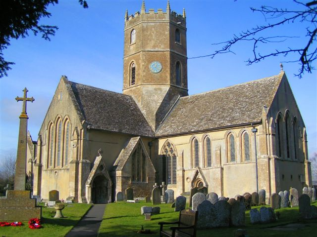 Church of England parish church of St Mary, Uffington, Oxfordshire: view from the southeast, showing the chancel (right), south transept (left) and octagonal central tower (centre)